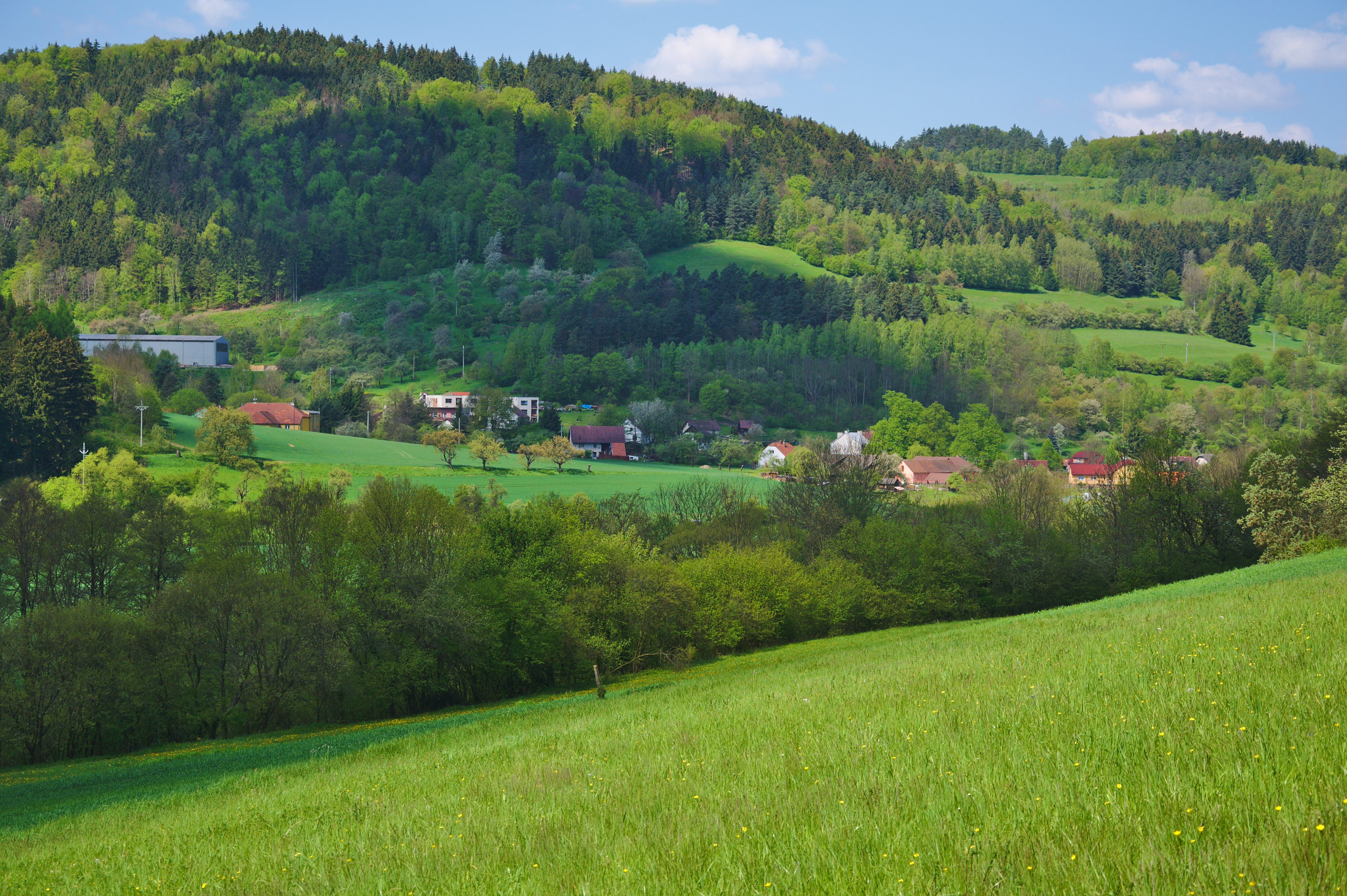 Ujčov, Žďár nad Sázavou District, Czechia.